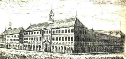 New Orleans in the 1830s: The former Parish Prison on the square bounded by Orleans, St. Ann, Marais, and Treme Streets.